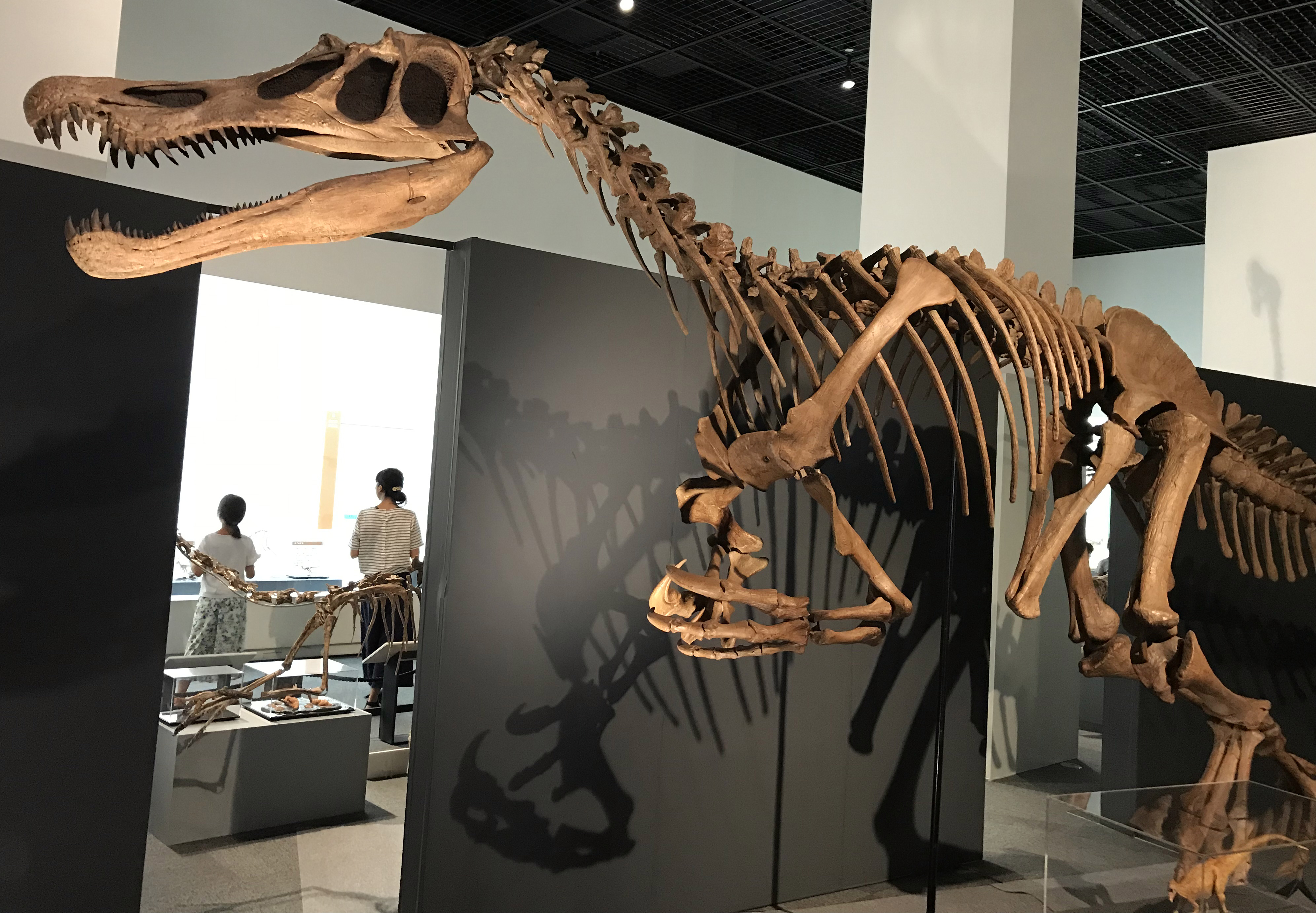 Baryonyx